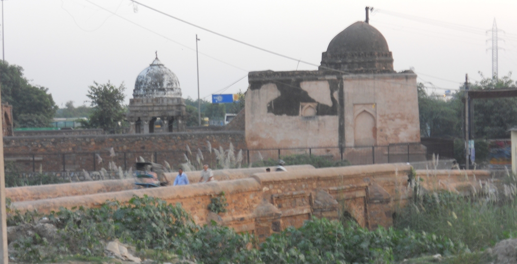 Neighbouring Bridge